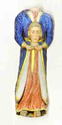 Saint Trevor